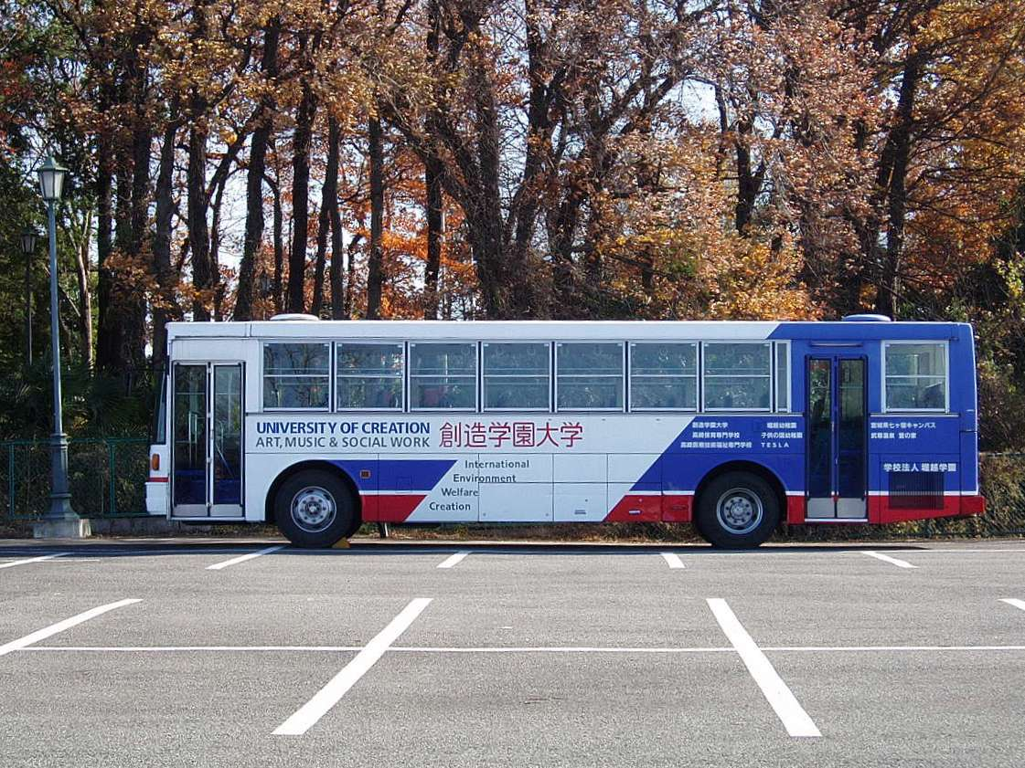 A school bus of Shimotaki Campus, the University of Creation; Art, Music & Social Work (Souzou Gakuen University).